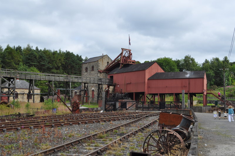 Beamish Museum, County Durham, England. This is the boiler house and pit head building of the Colliery, seen from the north west.